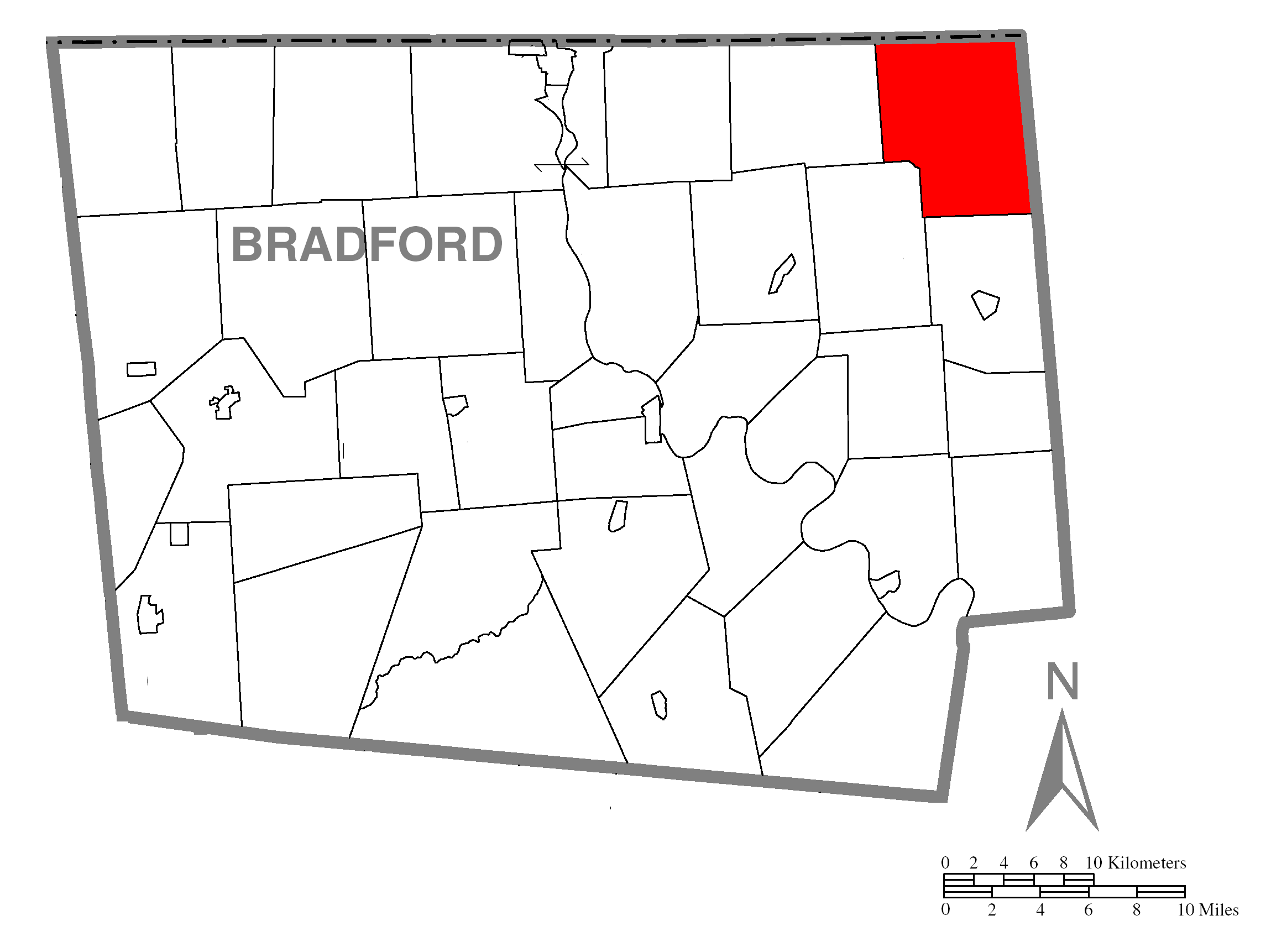 A map of Bradford County showing Warren Township, Pennsylvania (alternate) highlighted on the map.